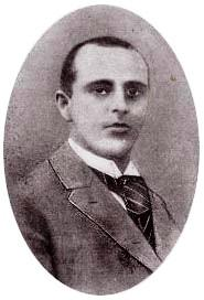 foto of german chess player Max Harmonist (1864-1907)